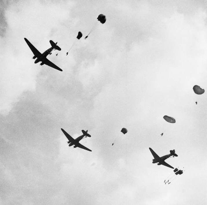 British paratroops drop from Douglas Dakota aircraft over Oosterbeek, just outside Arnhem, during Operation 'Market Garden', 17 September 1944.